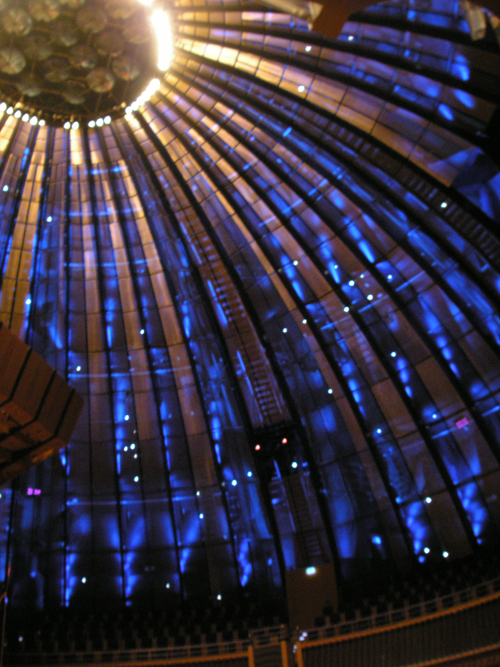 Dome of the Tonhalle Duesseldorf